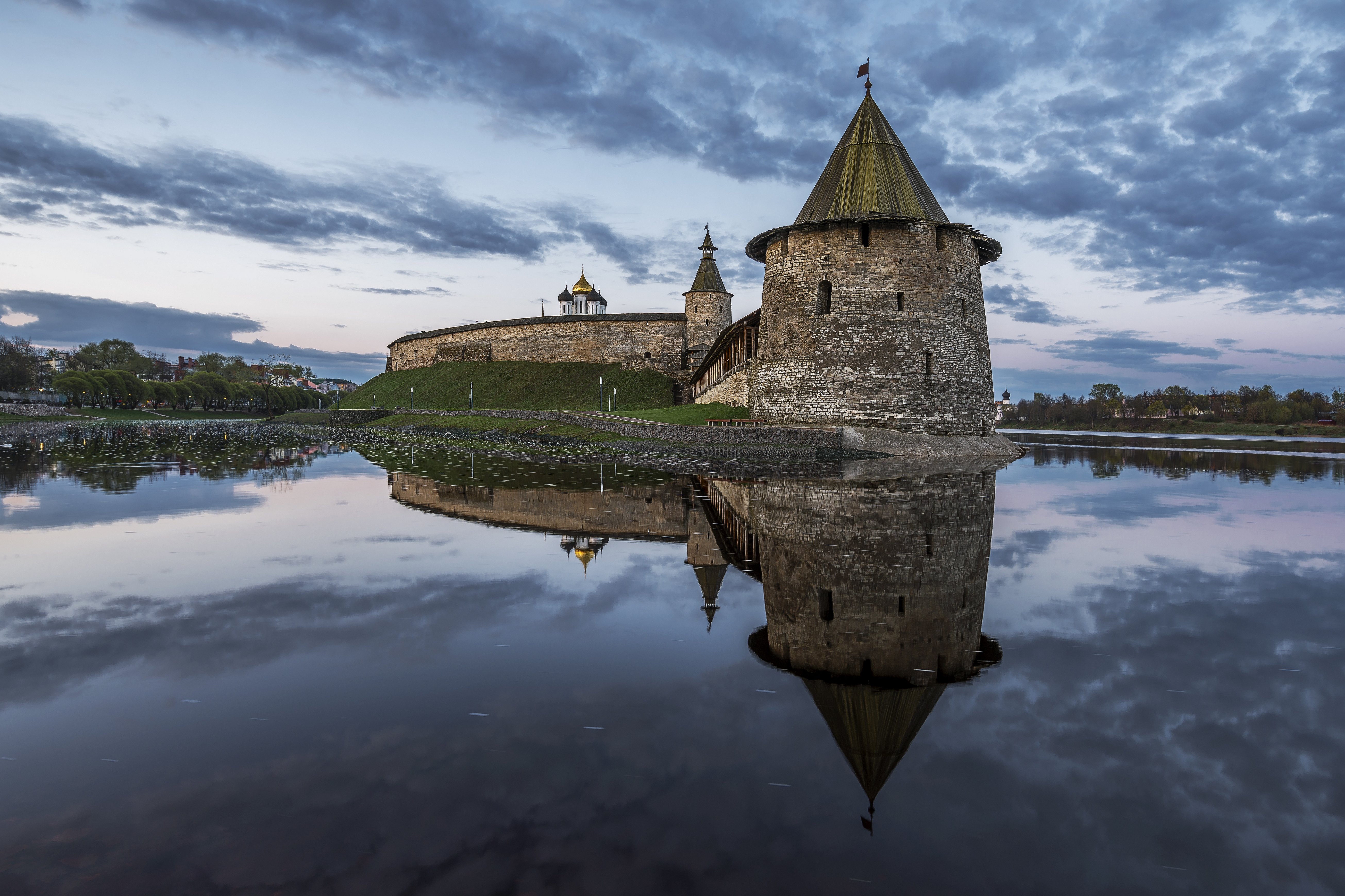 Ploskaya Tower, Pskov Kremlin, Pskov Oblast